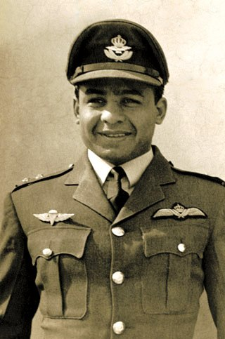 Portrait of First Lieutenant Muwaffaq Salti A Jordanian Pilot Killed in combat on 13 November 1966 over Hebron in Palestine during al-Samou Battle known as Operation Shredder by the IDF